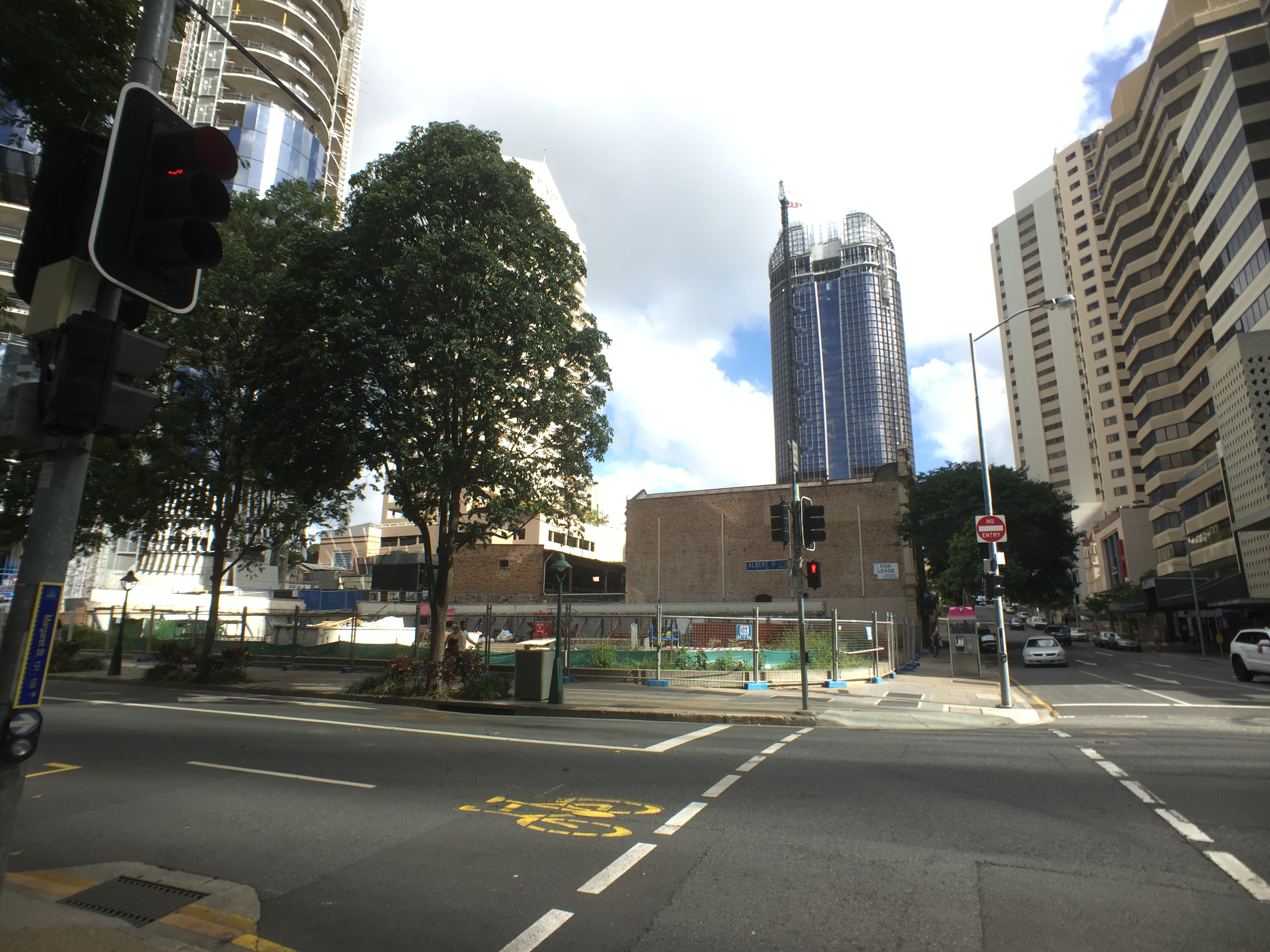 30 Albert Street, Brisbane May 2016